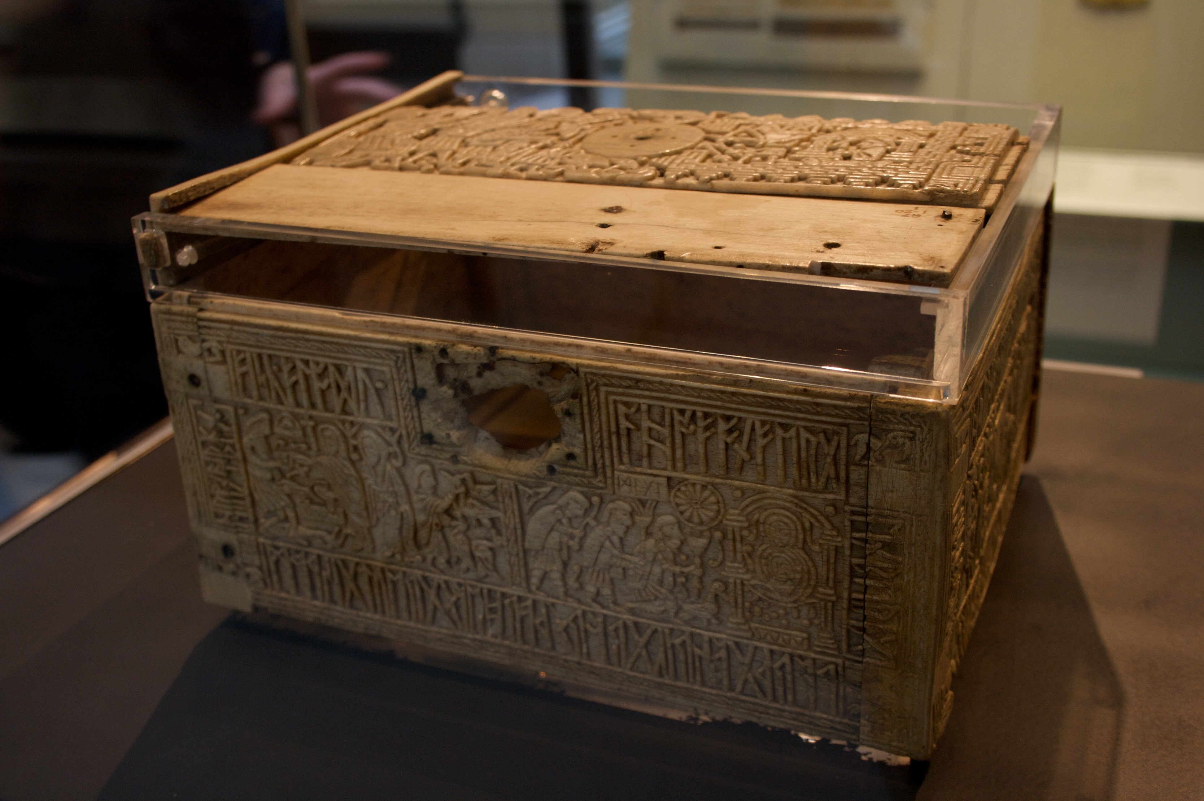 The Franks Casket. Anglo-Saxon, first half of the 8th century AD. In the British Museum.